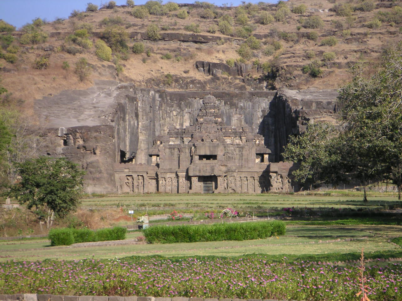 Ellora Caves, Maharashtra, India.